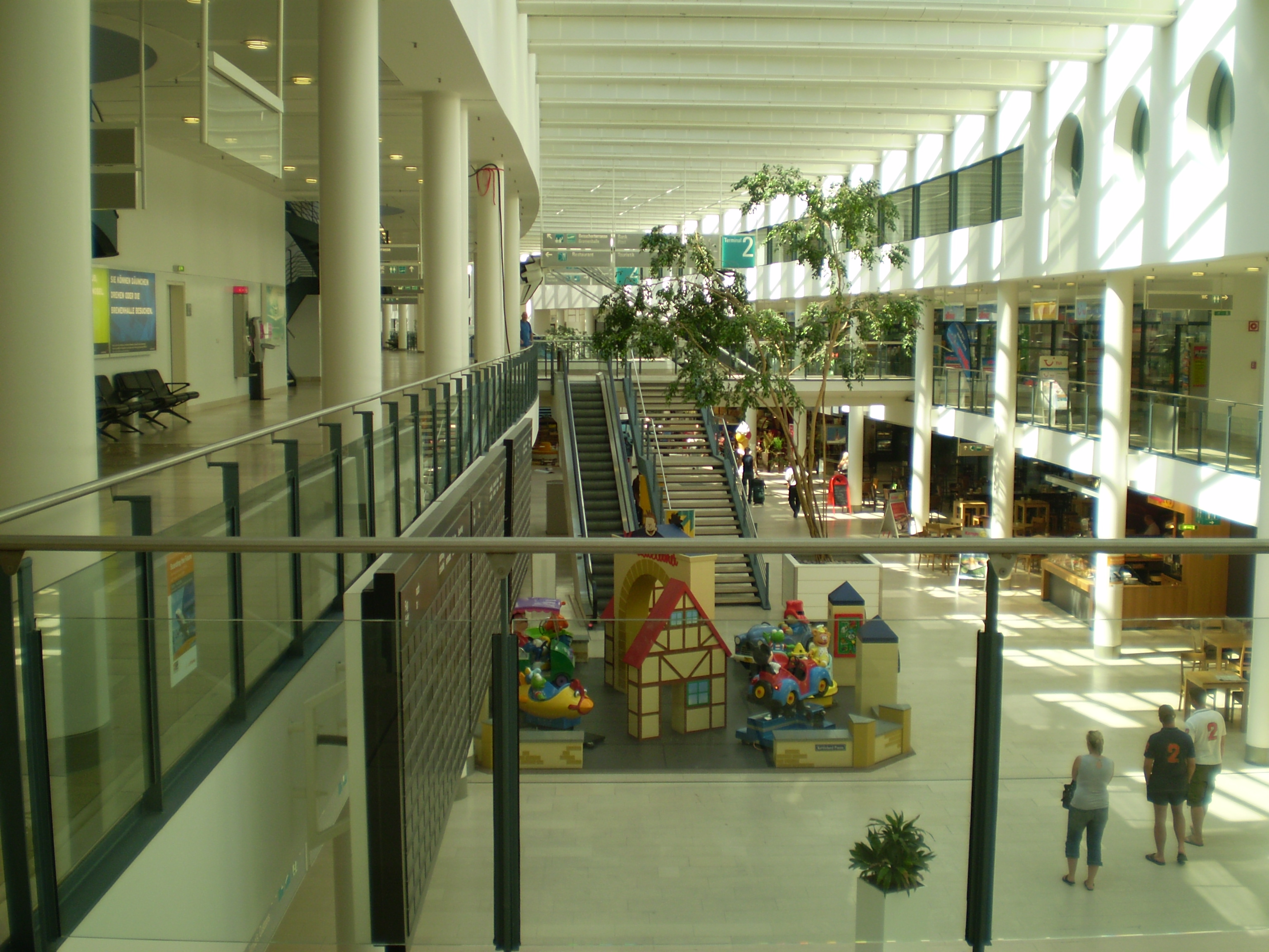 The view of restaurant and shopping complex in Bremen Airport.